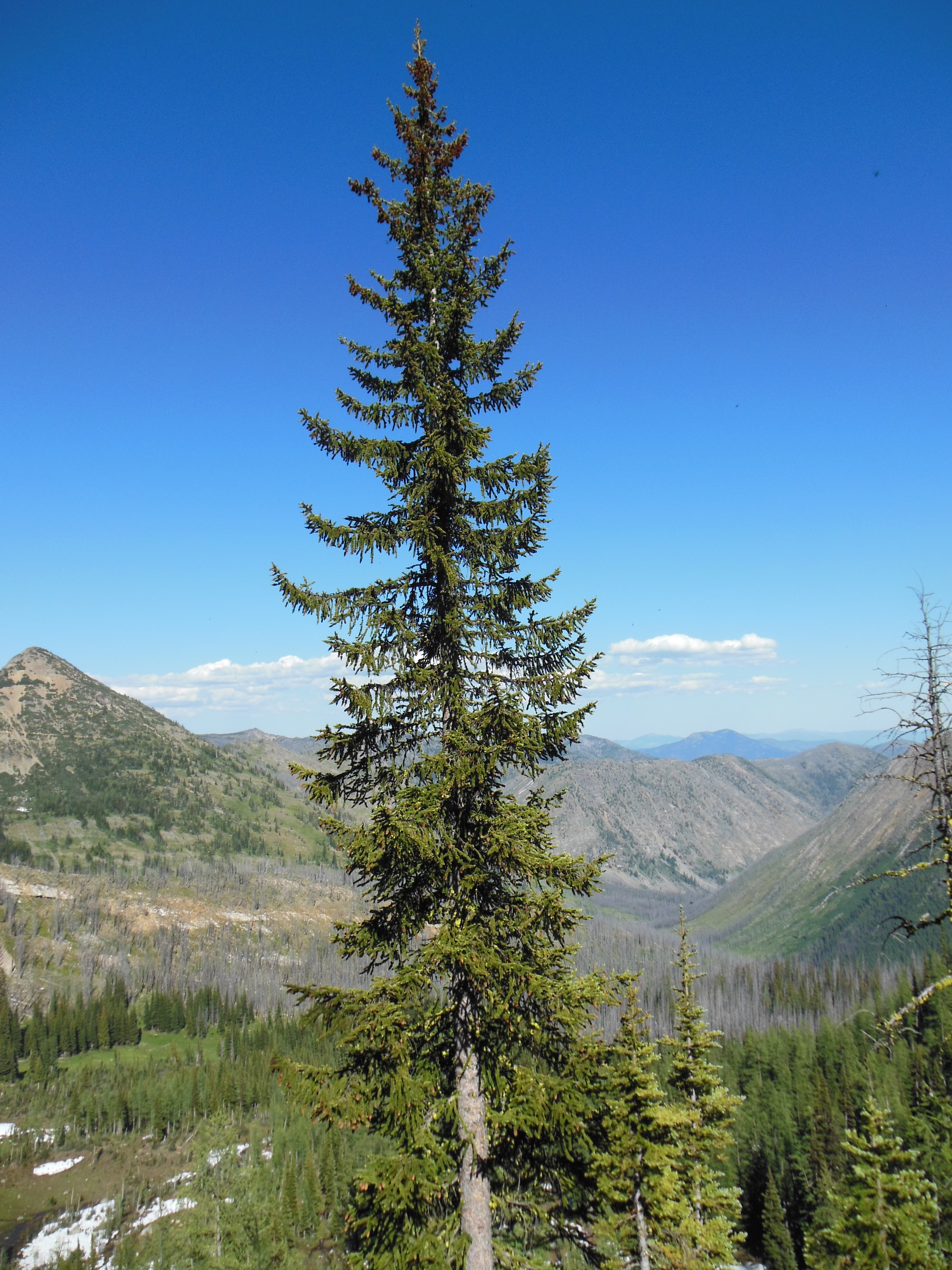 Engelmann spruce (Picea engelmannii) along the Pacific Crest Trail south of Harts Pass in the North Cascades, northwestern Okanogan County, Okanogan National Forest, Washington, USA